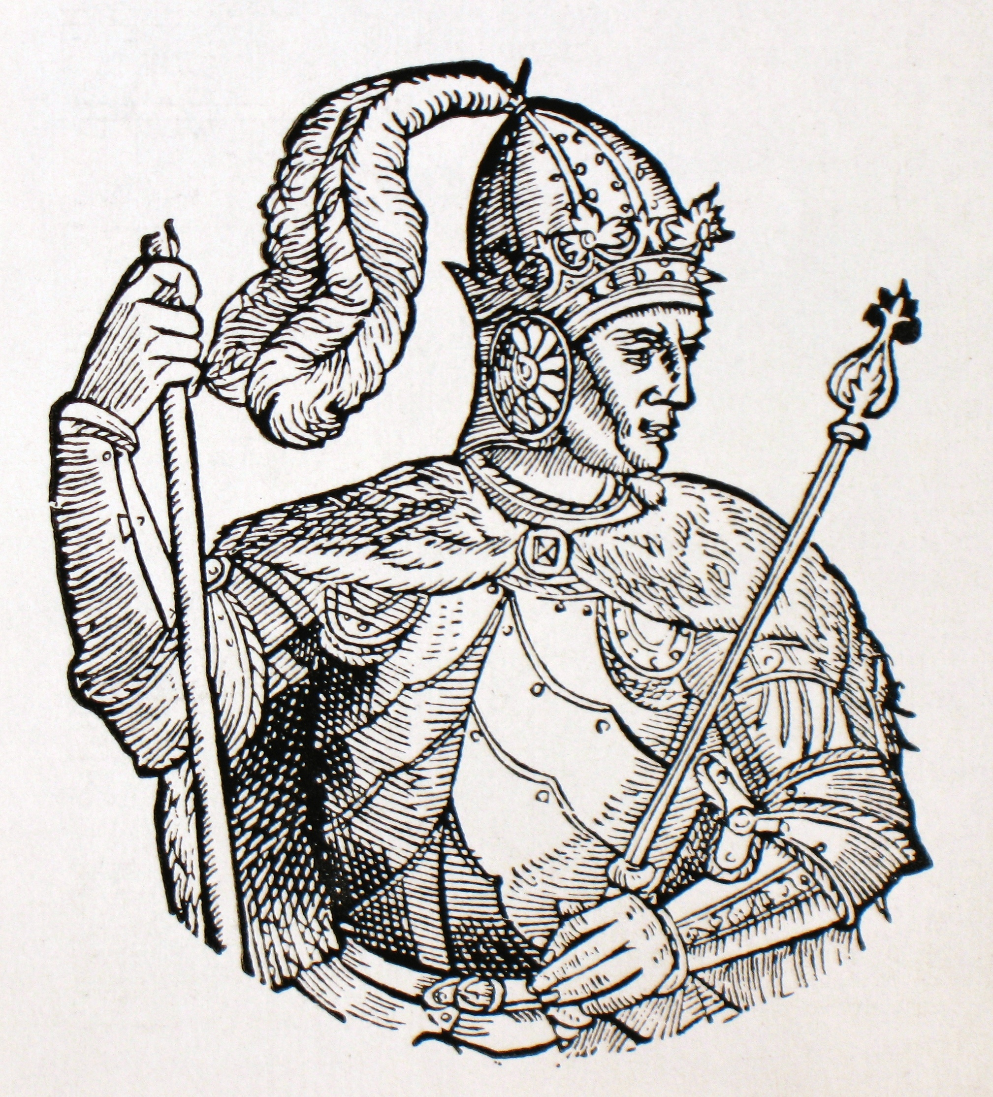 Vitovt (Vitautas), Grand Duke of Lithuania.